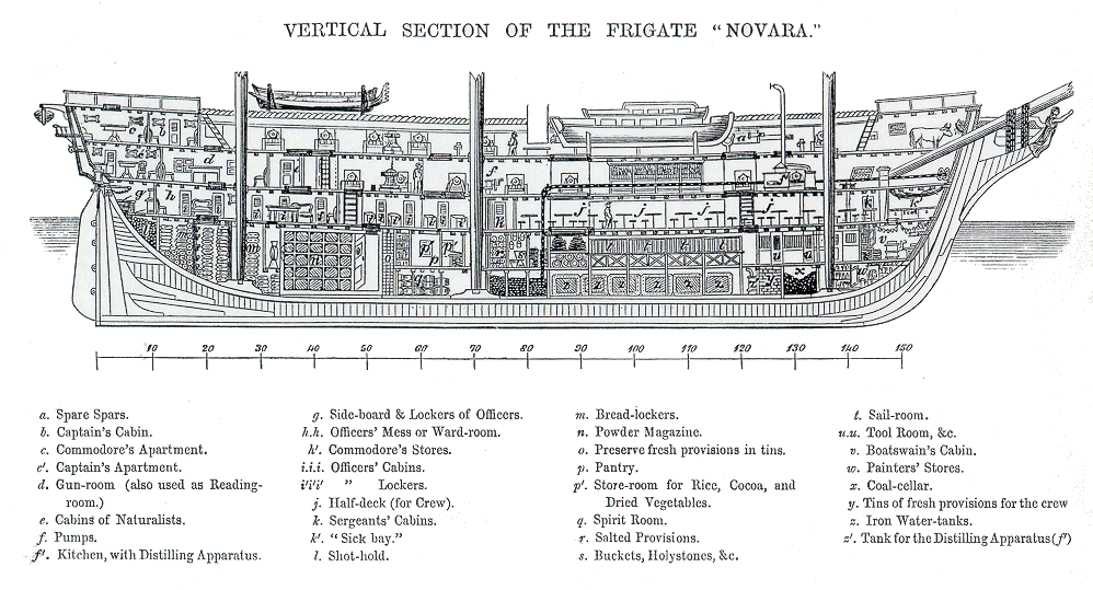 Vertical section of the Austrian frigate Novara at the time of her round-the-world voyage, 1857-59. Extratced from Scherzer (1861-3). Česky: Průřez Novahou v době její cesty kolem světa.